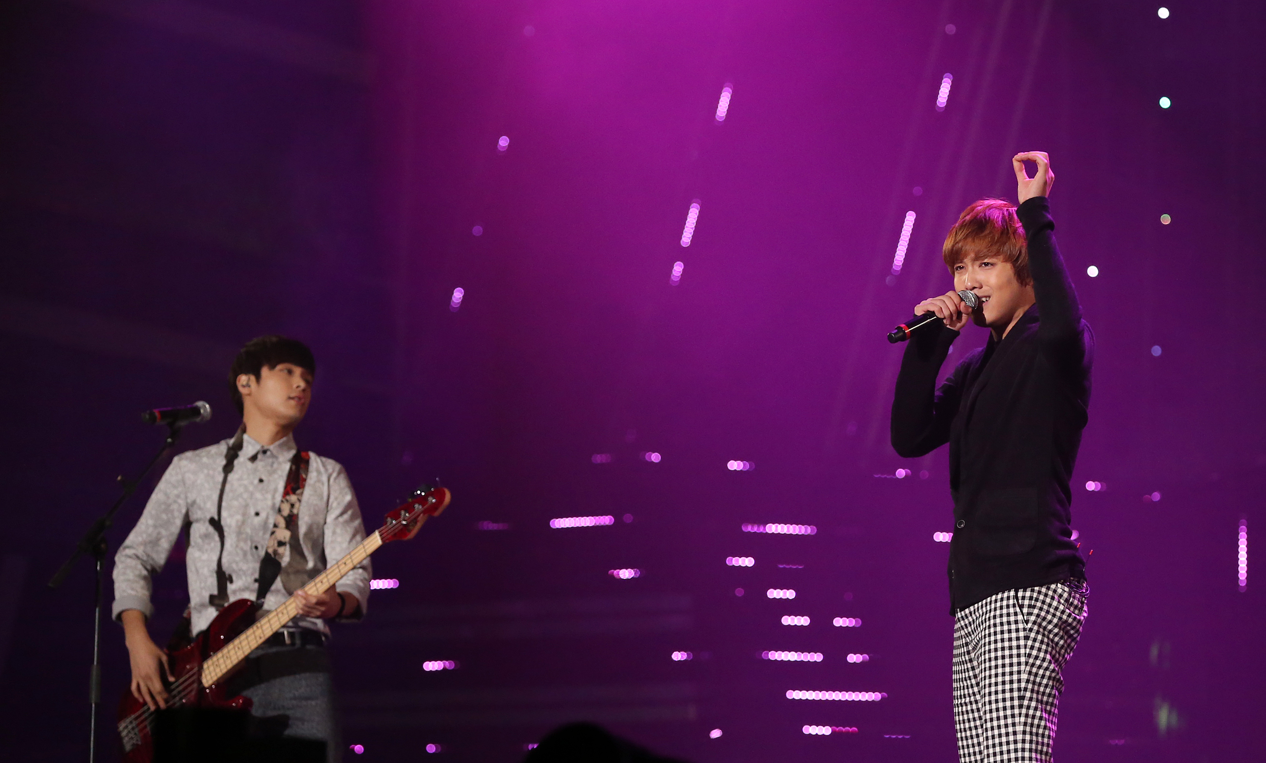 2012 K-POP World Festival Special Performance by FT Island Changwon, Korea 2012.10.28. Ministry of Culture, Sports and Tourism Korean Culture and Information Service Jeon Han 2012 K-POP 월드 페스티벌 FT 아일랜드 축하공연 경상남도 창원시 문화체육관광부 해외문화홍보원 코리아넷 전한